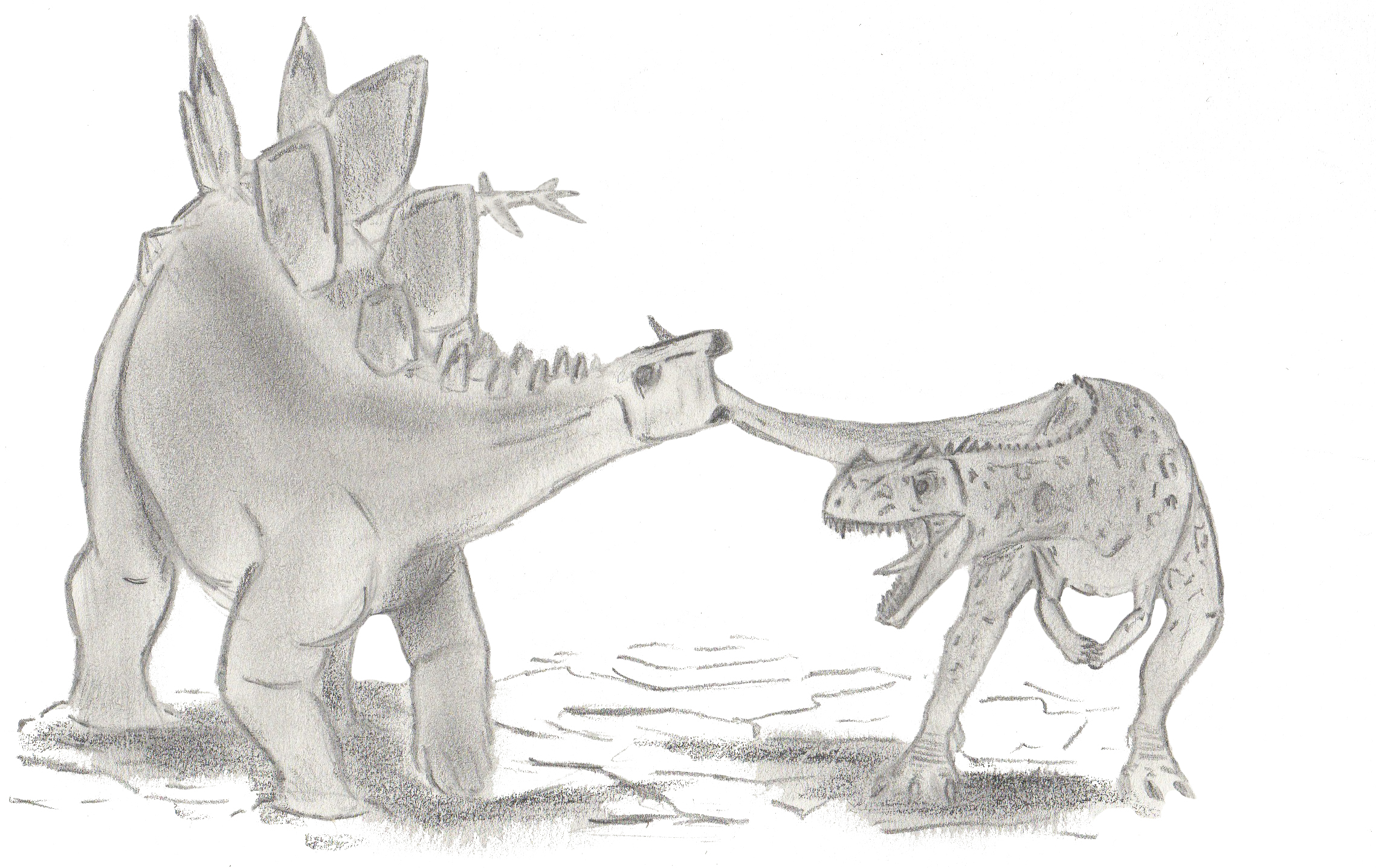 Stegosaurus and Ceratosaurus